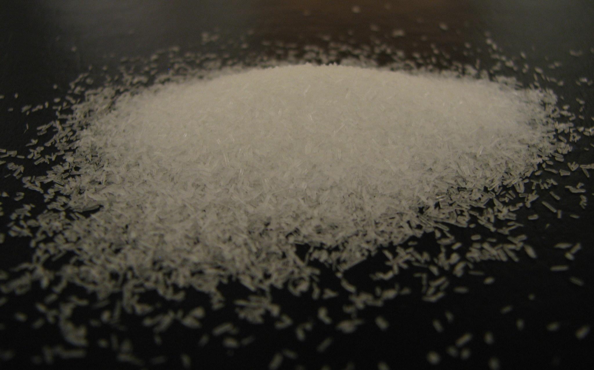 Crystals of monosodium glutamate (MSG).